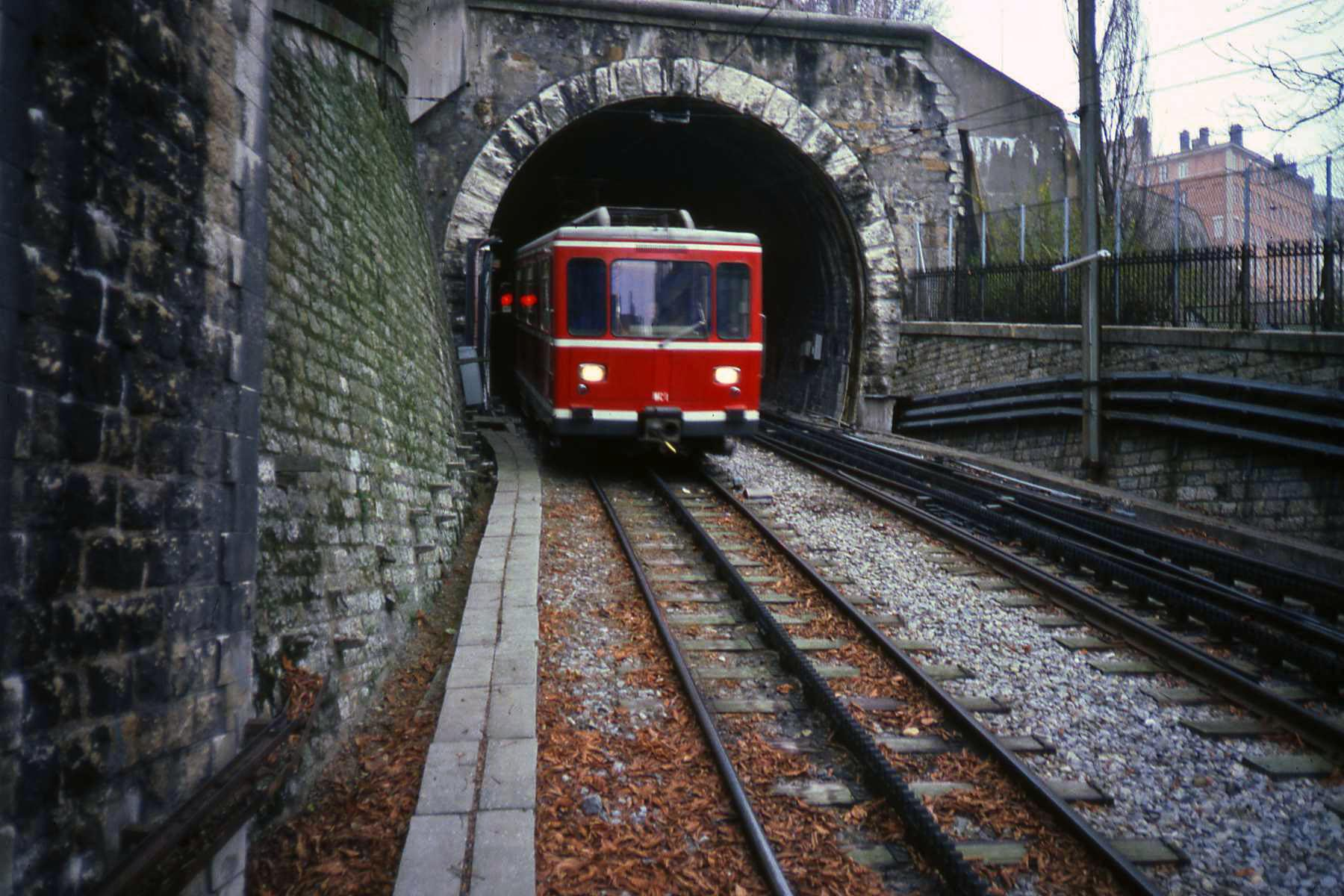 Funicular railway metroline C. old style vehicle.